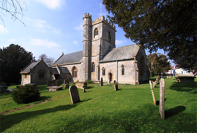 Winsham - Church of St Stephen With its C13 origins, St Stephen's church is mostly C15; like so many parish churches it was restored during the C19.